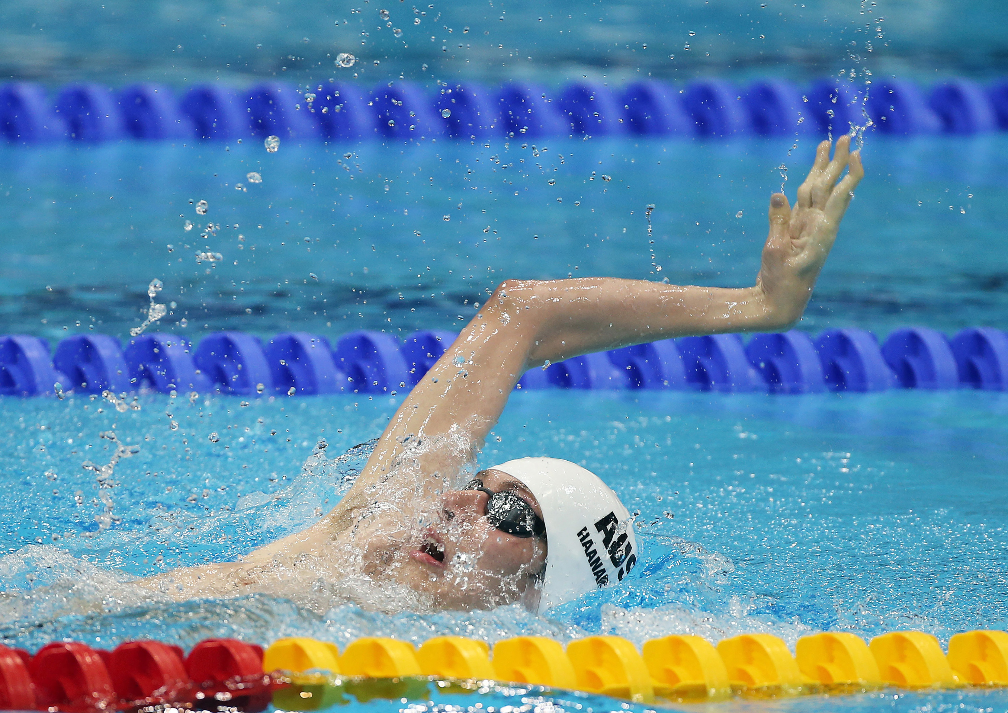 Photograph of Australian Paralympic team member Matthew Haanappel at the 2012 Summer Paralympic Games in London